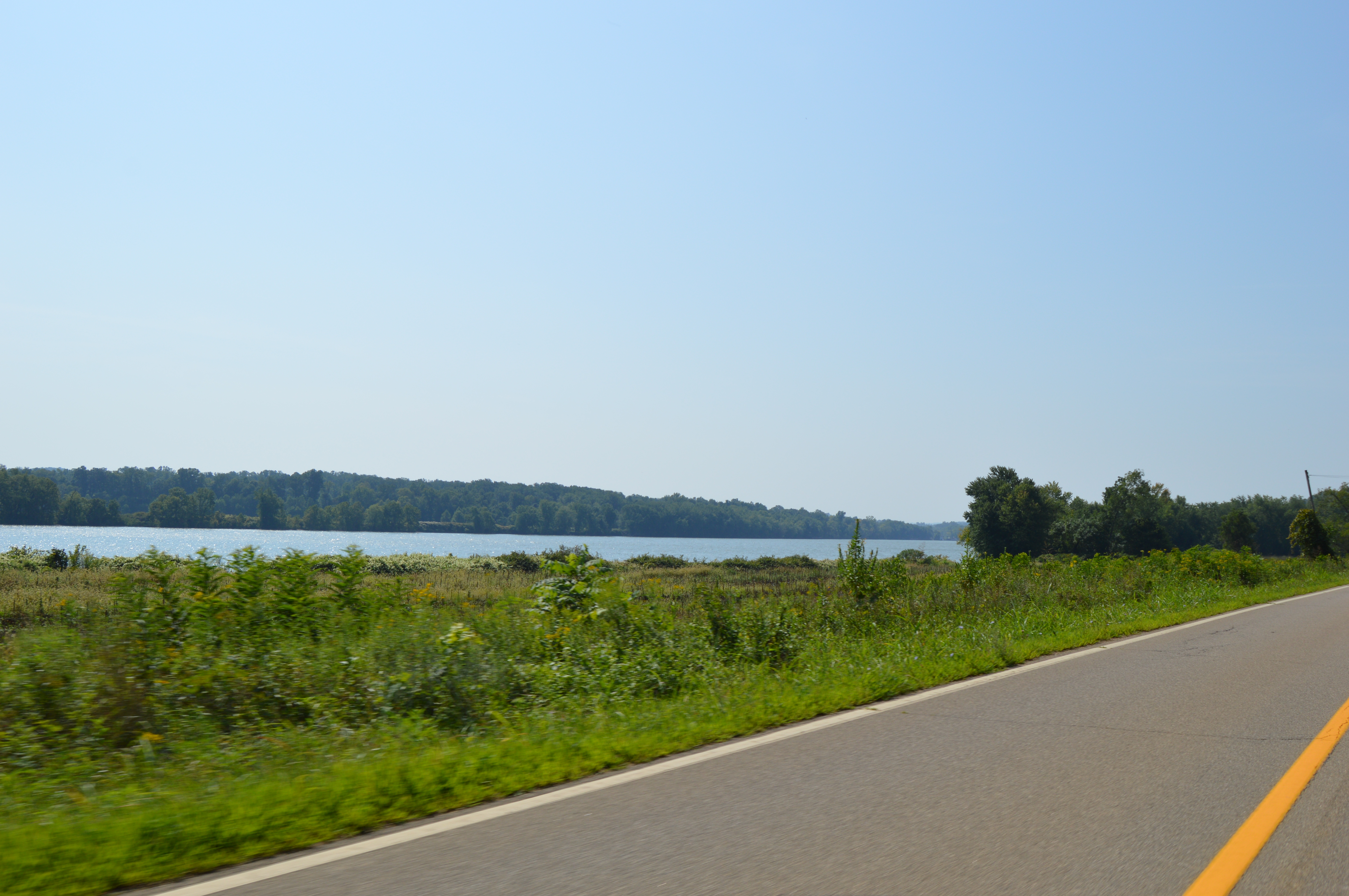 Looking south from State Route 124 over the Ohio River. Photo is taken in Letart Township north of Apple Grove, Ohio, United States.